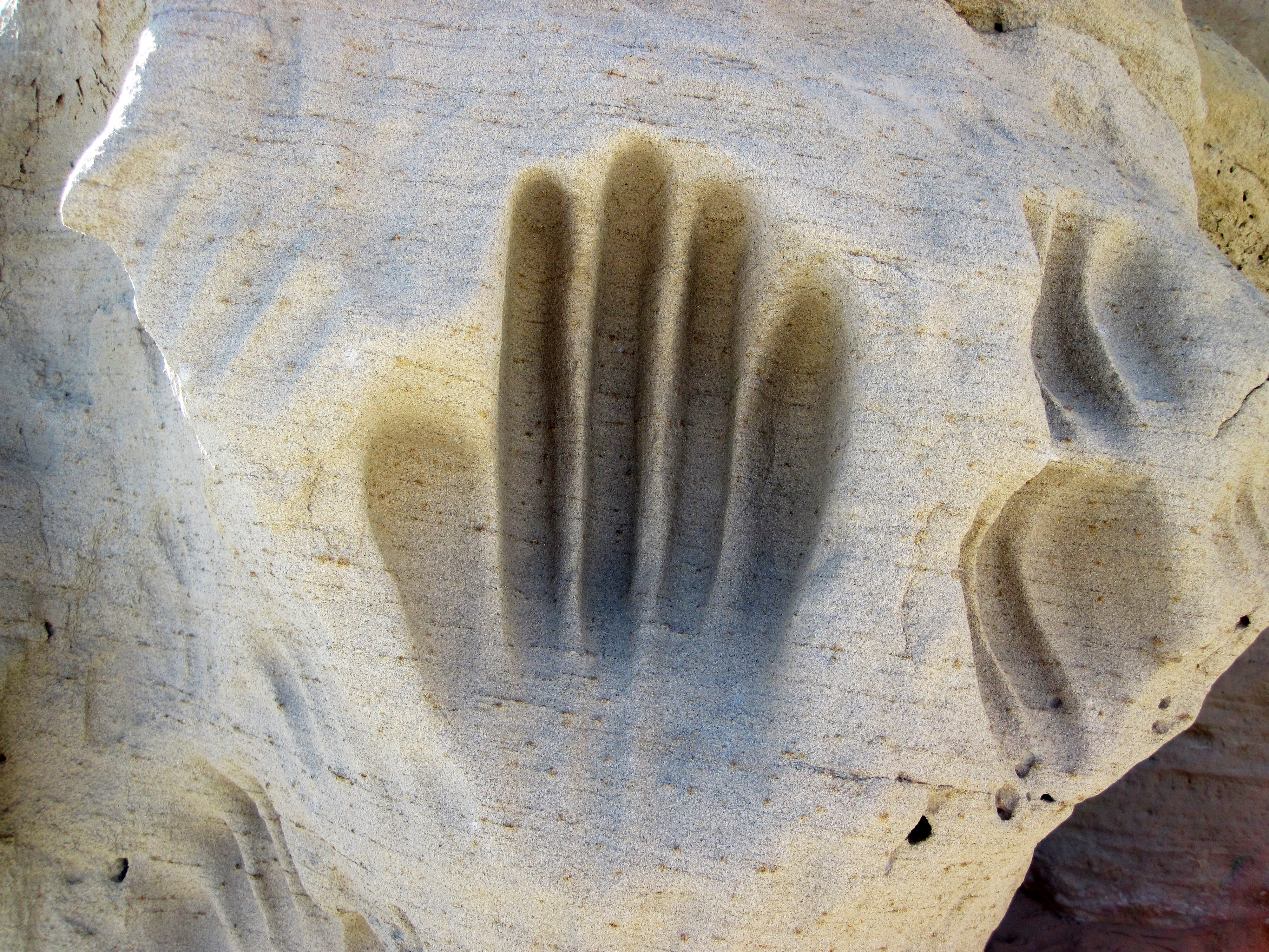 Human hands - Ancestral Shoshone Indian-made petroglyphs (~1000 to ~200 years old) on fluvial, quartzose sandstone cliff face (Wasatch Formation, Paleocene to lowermost Eocene) in Wyoming. These handprints were produced by rubbing of fingers on the slightly friable sandstone surface. Locality: White Mountain Petroglyphs, eastern flank of White Mountain, north of the town of Rock Springs, southwestern Wyoming, USA